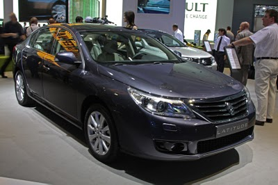 Renault Latitude